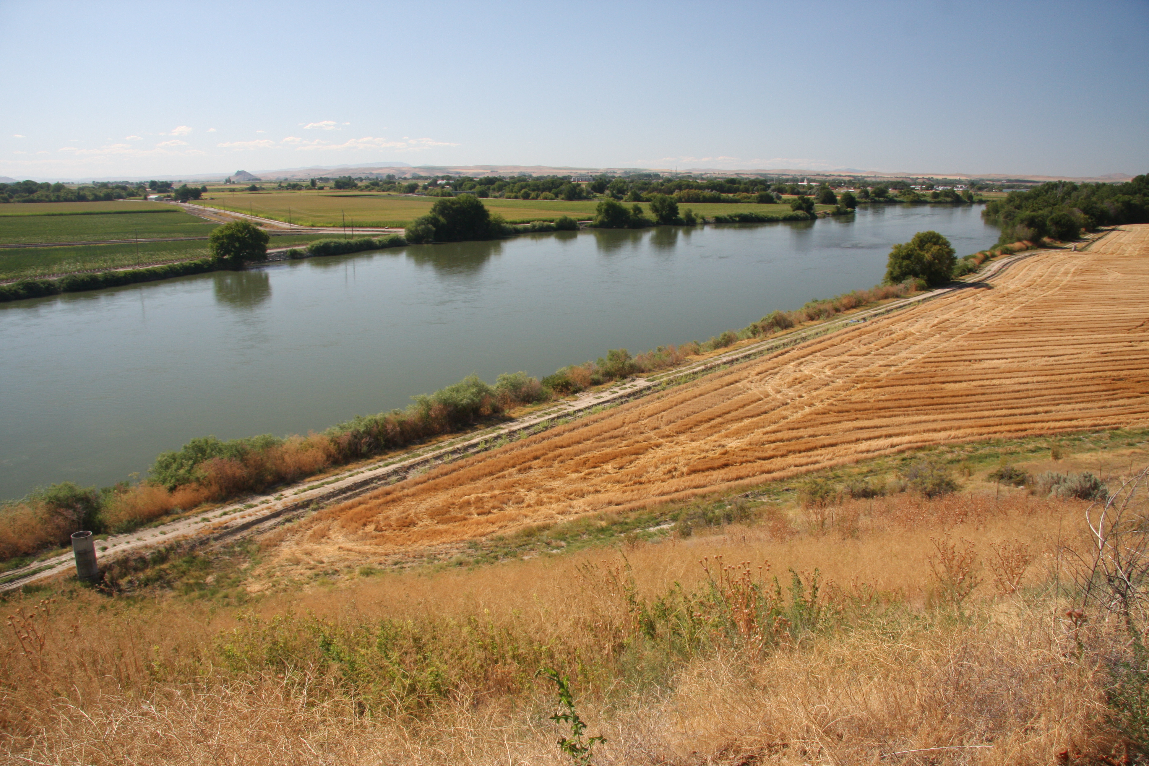 Snake River Valley, Boise Region, Oregon